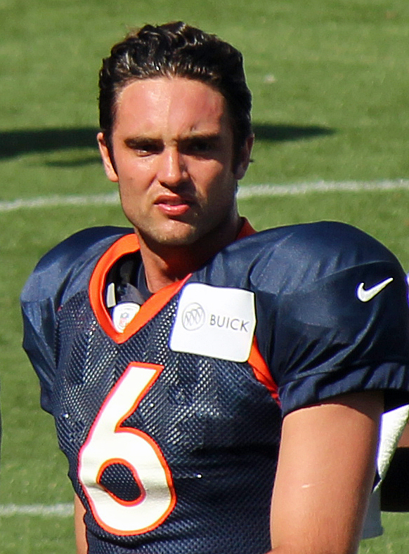 Brock Osweiler, a player on the National Football League.